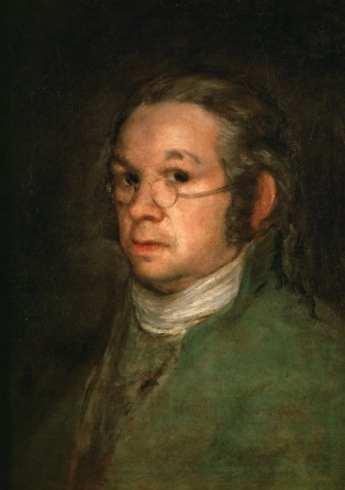 Self-portrait of the painter Francisco Goya